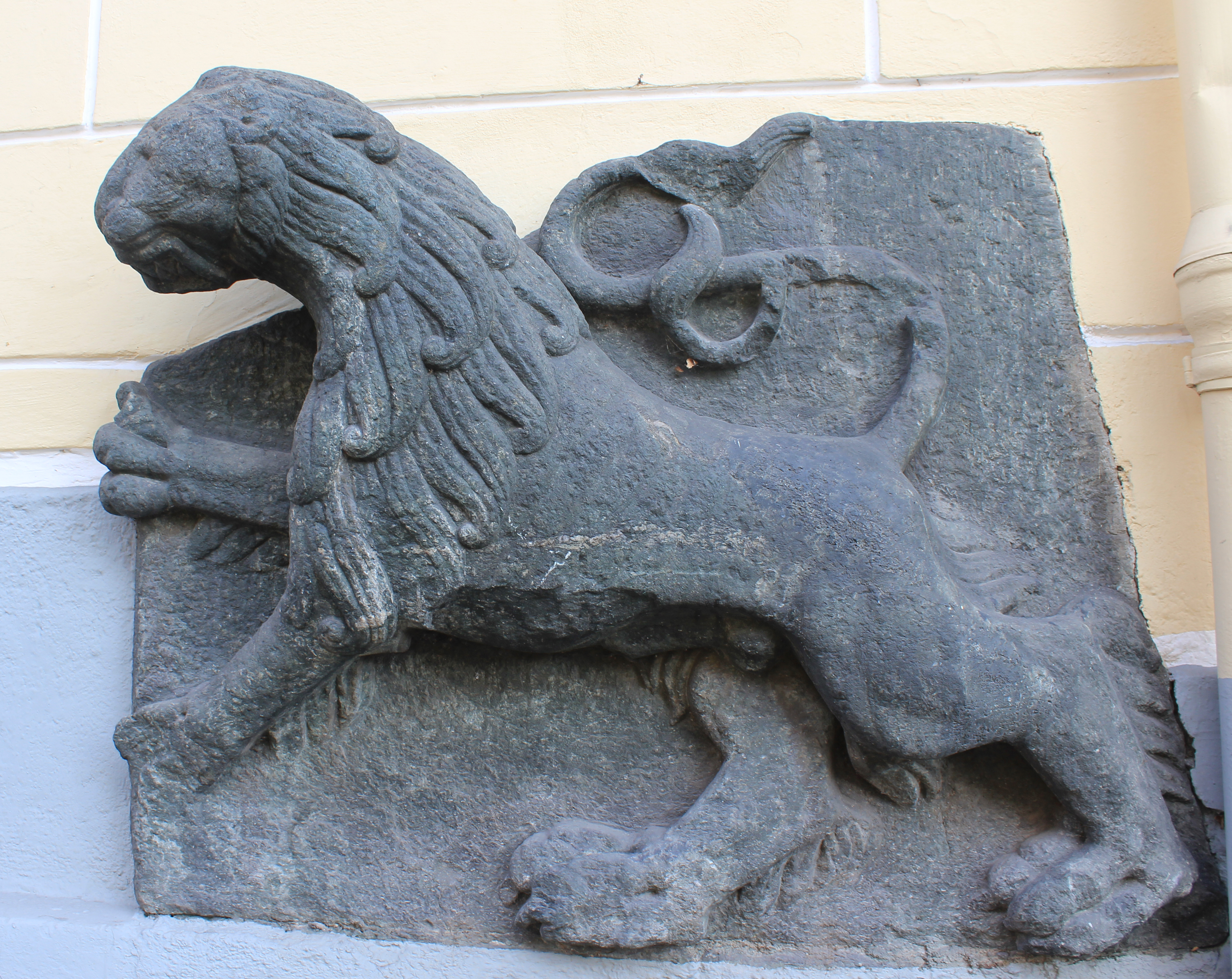 House Kardinalplatz 3 in Klagenfurt